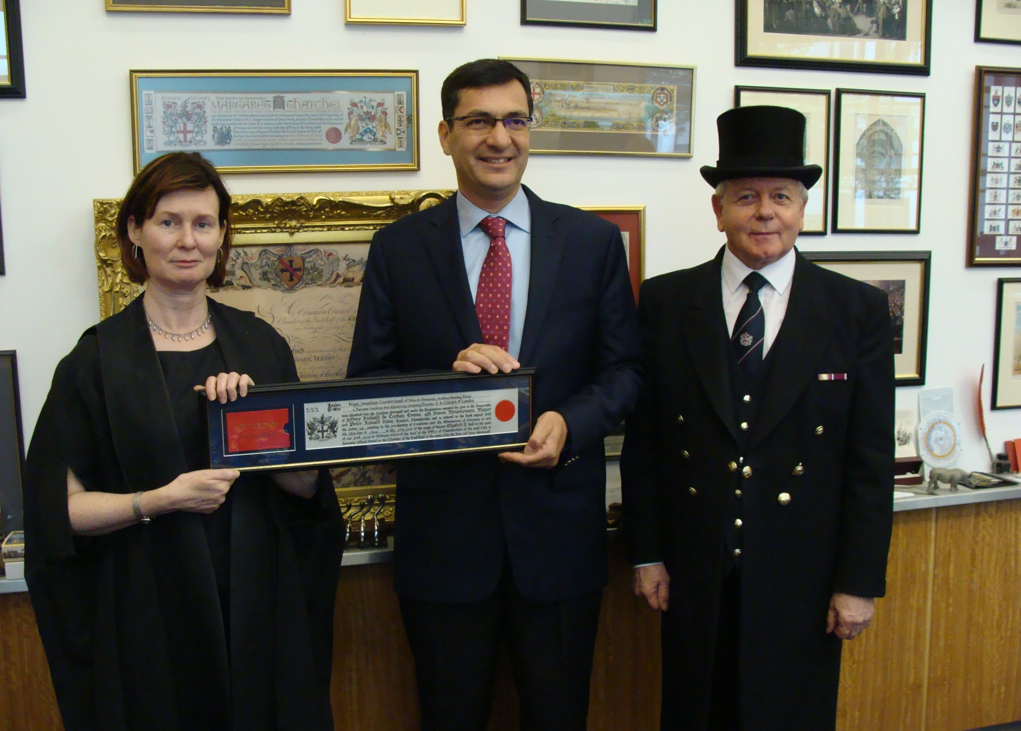 A newly appointed Freeman holds his Freeman's certificate alongside the Deputy Clerk to the Chamberlain within a Court in London's Guildhall